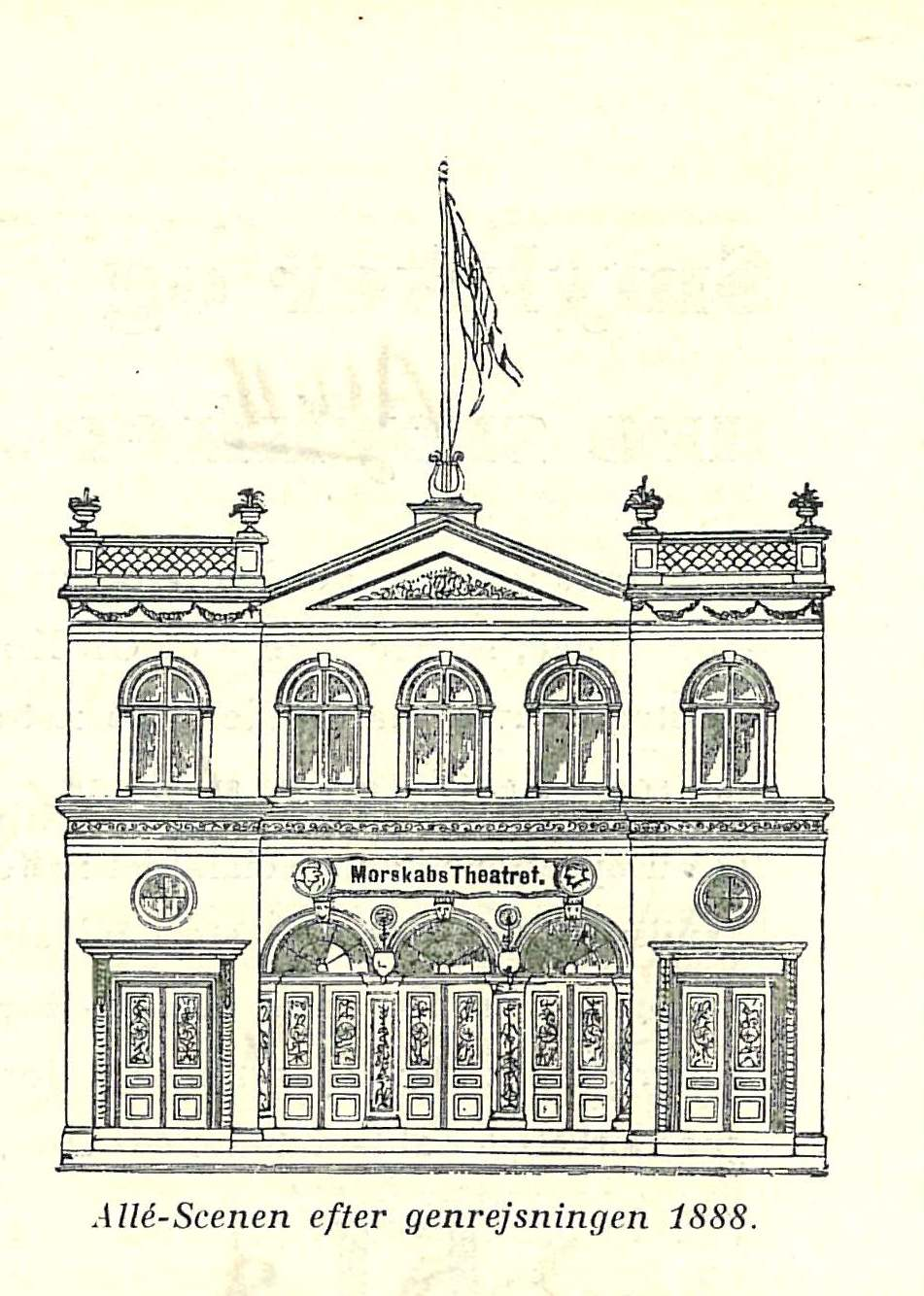 Frederiksberg Morskabsteater's new building from 1888 in FCopenhagen, Denmark